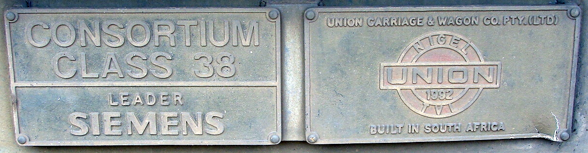 Amcoal Mines Class E38 E38-003 builder's plates Location: Sentrarand, Gauteng